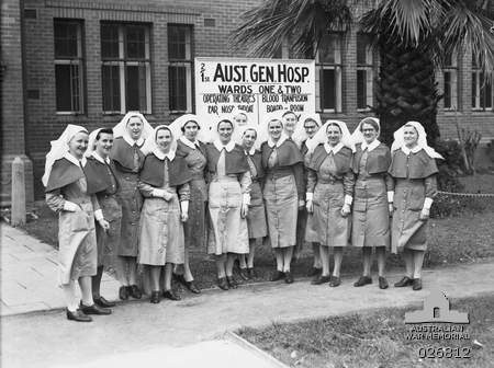 A group of Australian Army Nursing Service sisters who had served in the Middle East with the 2/1st Australian General Hospital in front of a building occupied by the unit at Guildford, Western Australia in September 1942